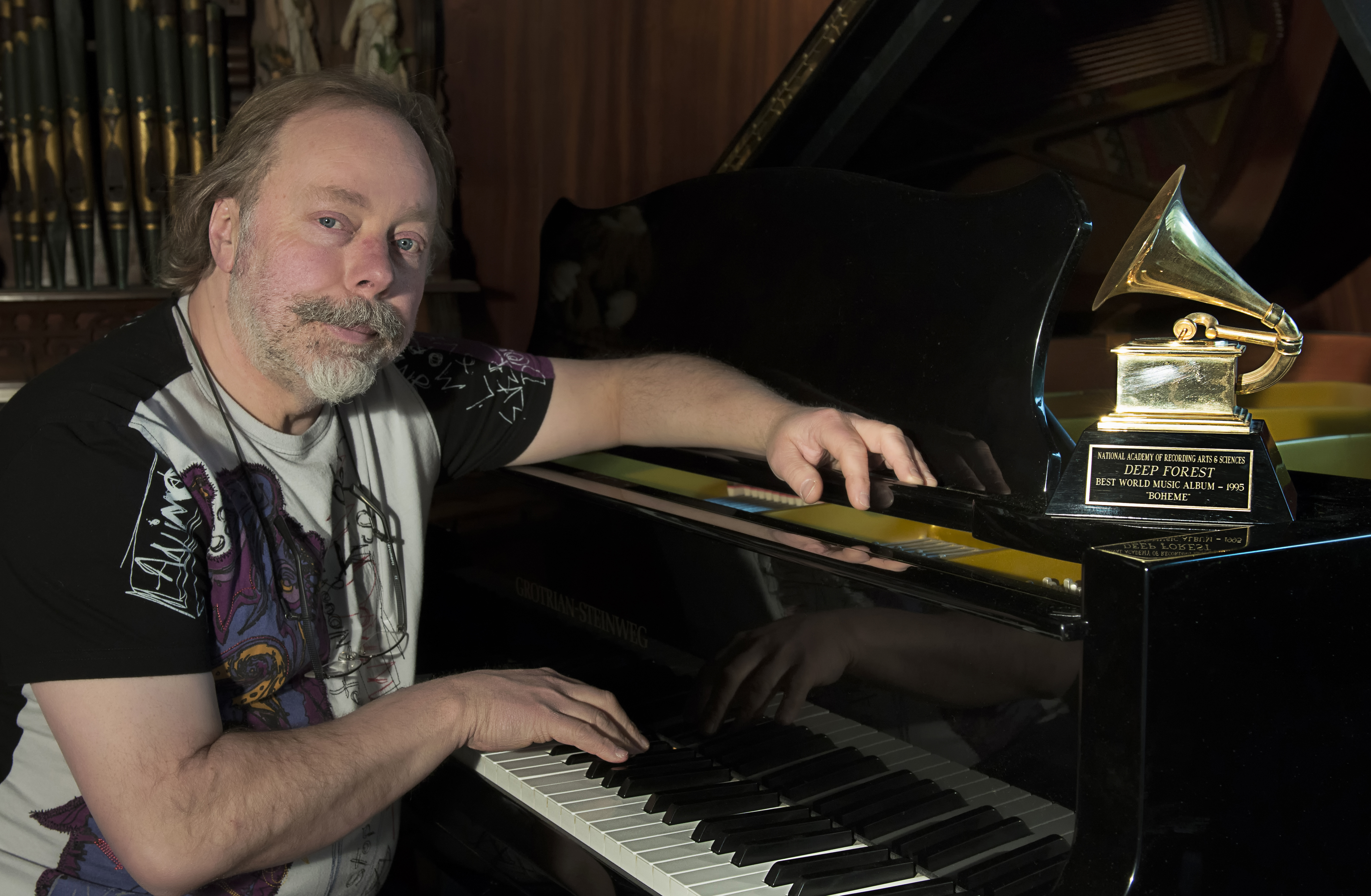 Michel Sanchez (Deep Forest) 24/05/2014© DELHALLE bernard / DALLE APRF